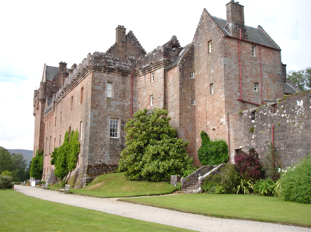 Brodick Castle, Scotland.